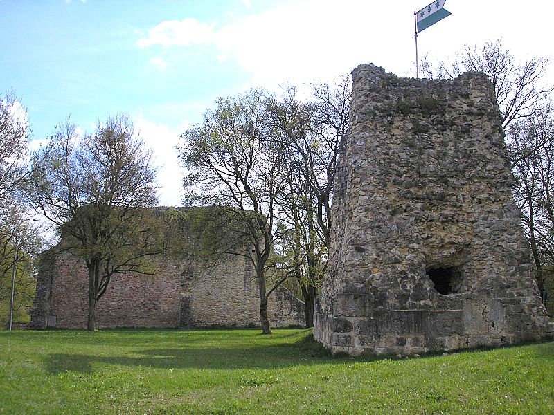 Burg Güssenburg (Heidenheim District, Baden-Wuerttemberg, Germany). Keep and Curtain Wall ruins.